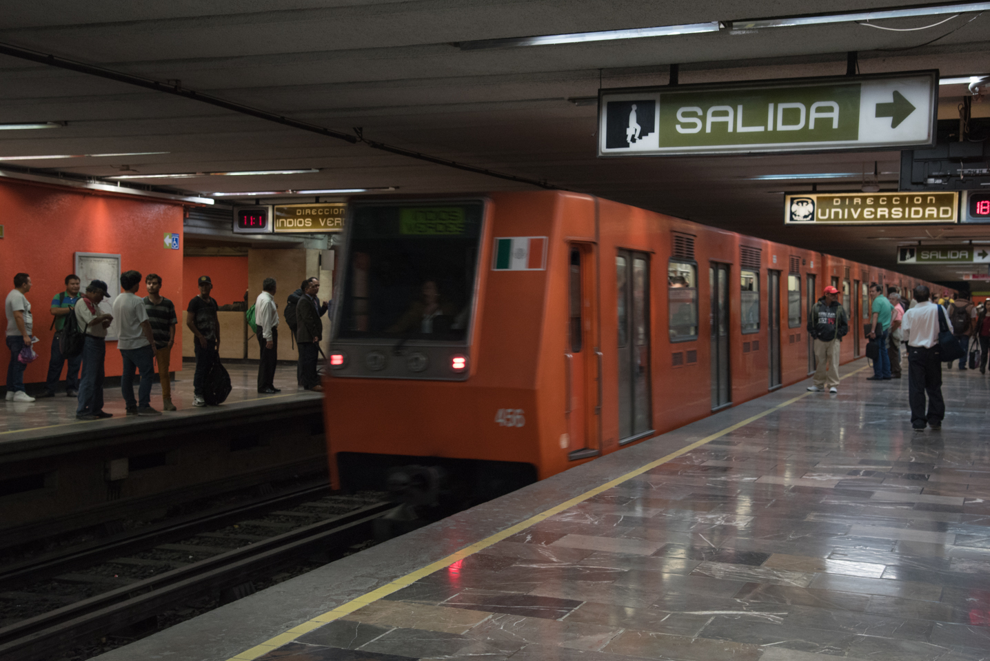 Platforms of the Metro Etiopía station at Mexico City, May 2018